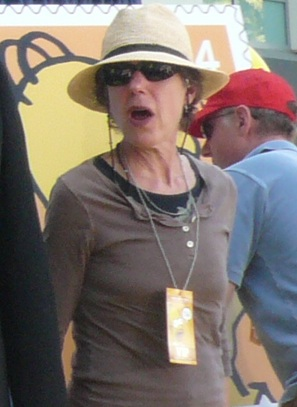 Actress Julie Kavner at the unveiling of The Simpsons stamps.